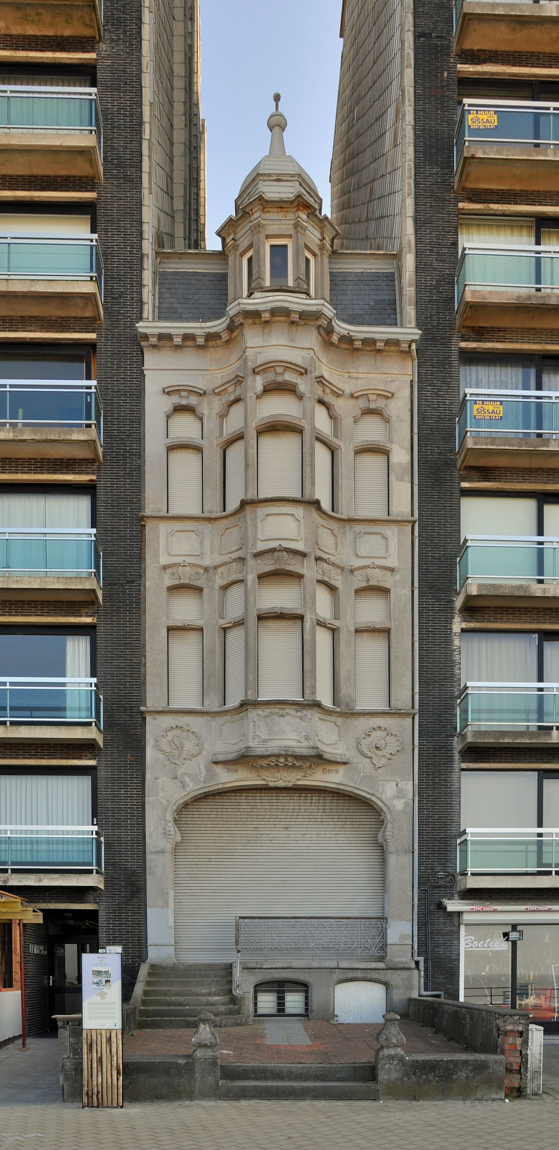 Middelkerke (Belgium): Villa Doris (Zeedijk #177)